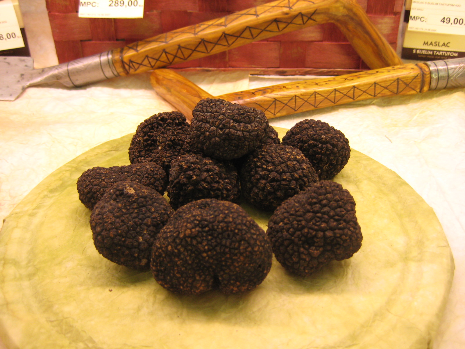 Truffles (black), from Istria, Croatia